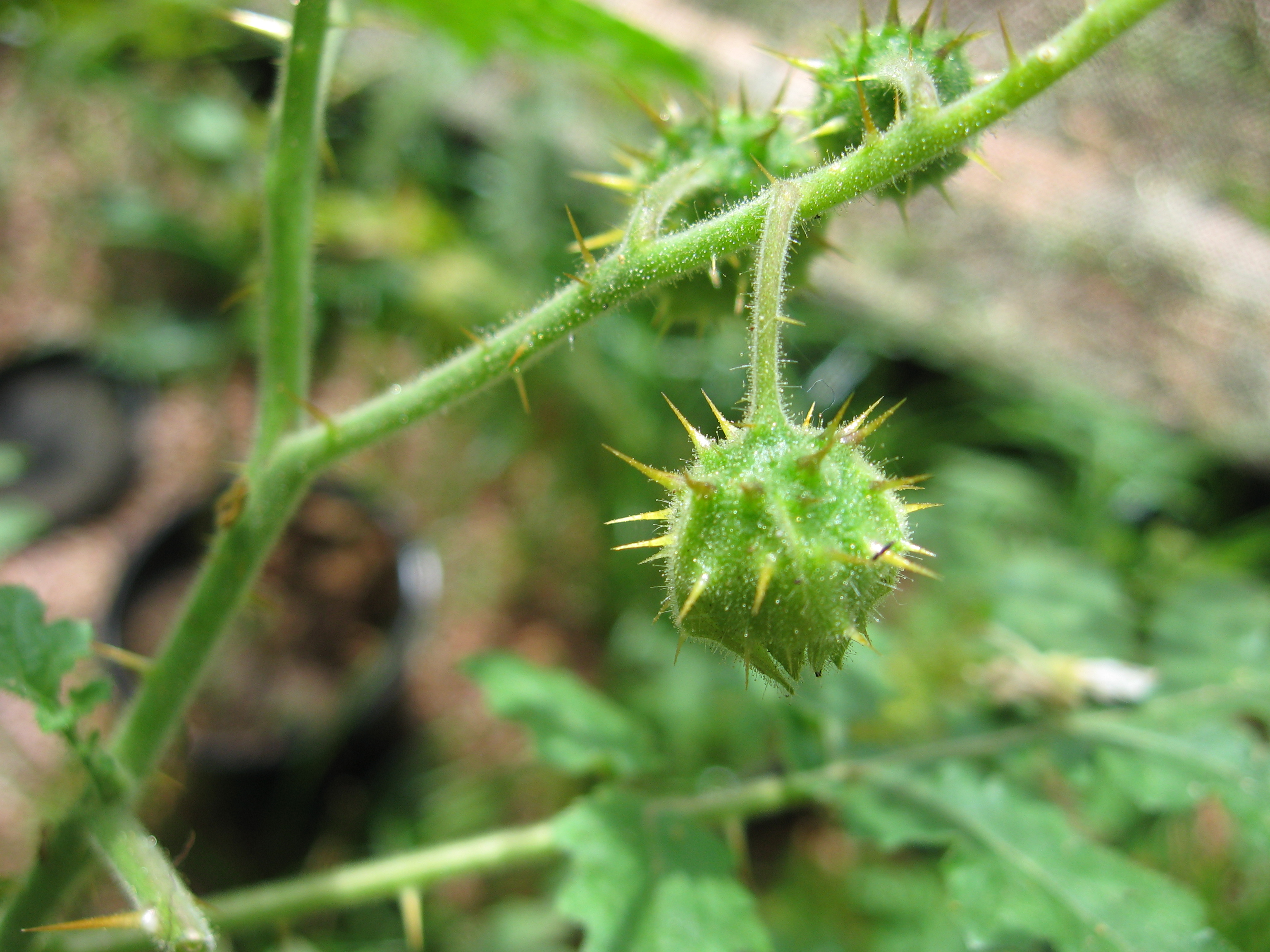 Solanum sisymbriifolium fruit photographed in Porto Alegre, Southern Brazil